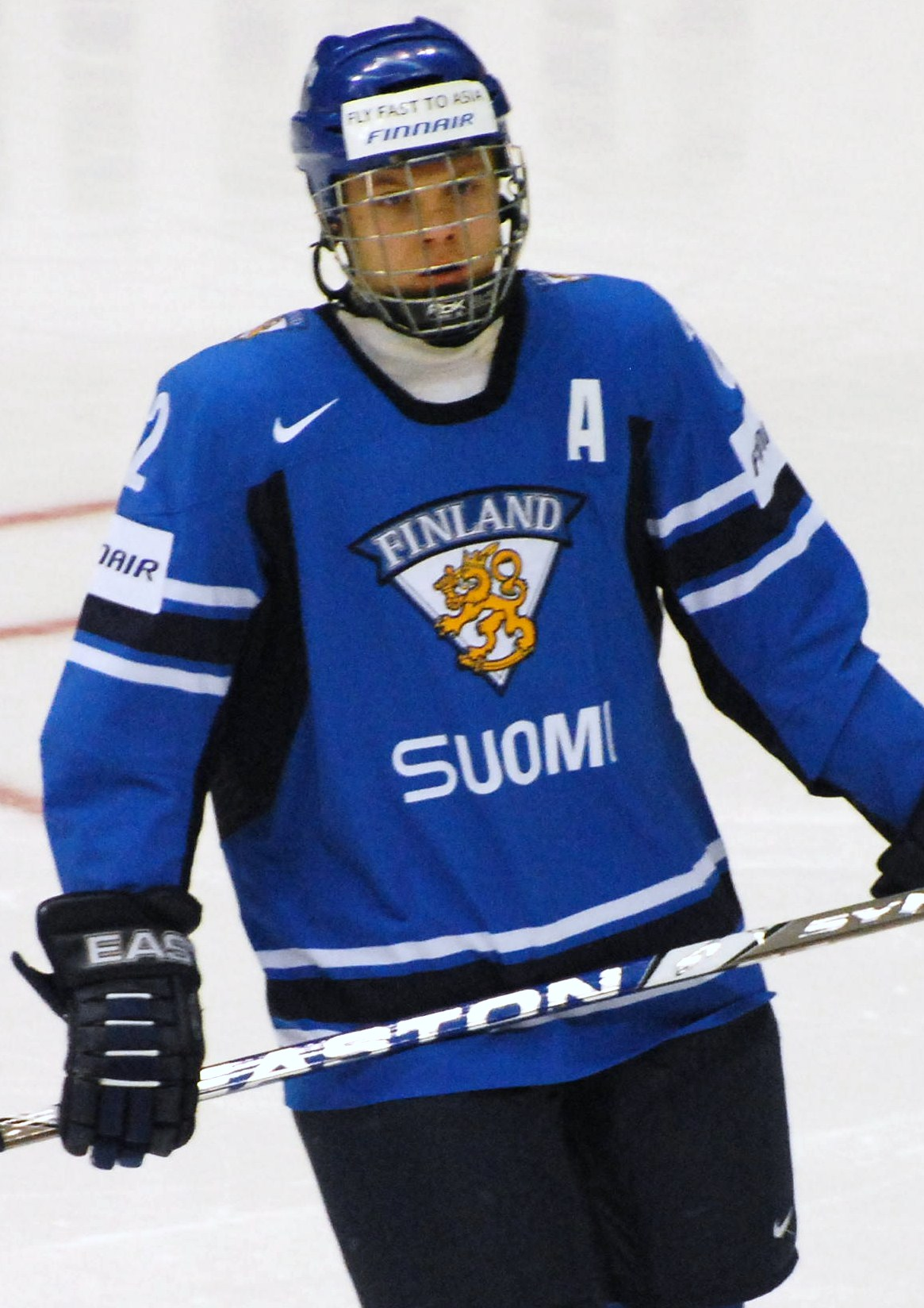 Mikael Granlund playing for Finland at the 2010 World Junior Hockey Championships.